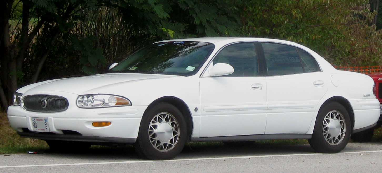 2000-2005 Buick LeSabre photographed in College Park, Maryland, USA.